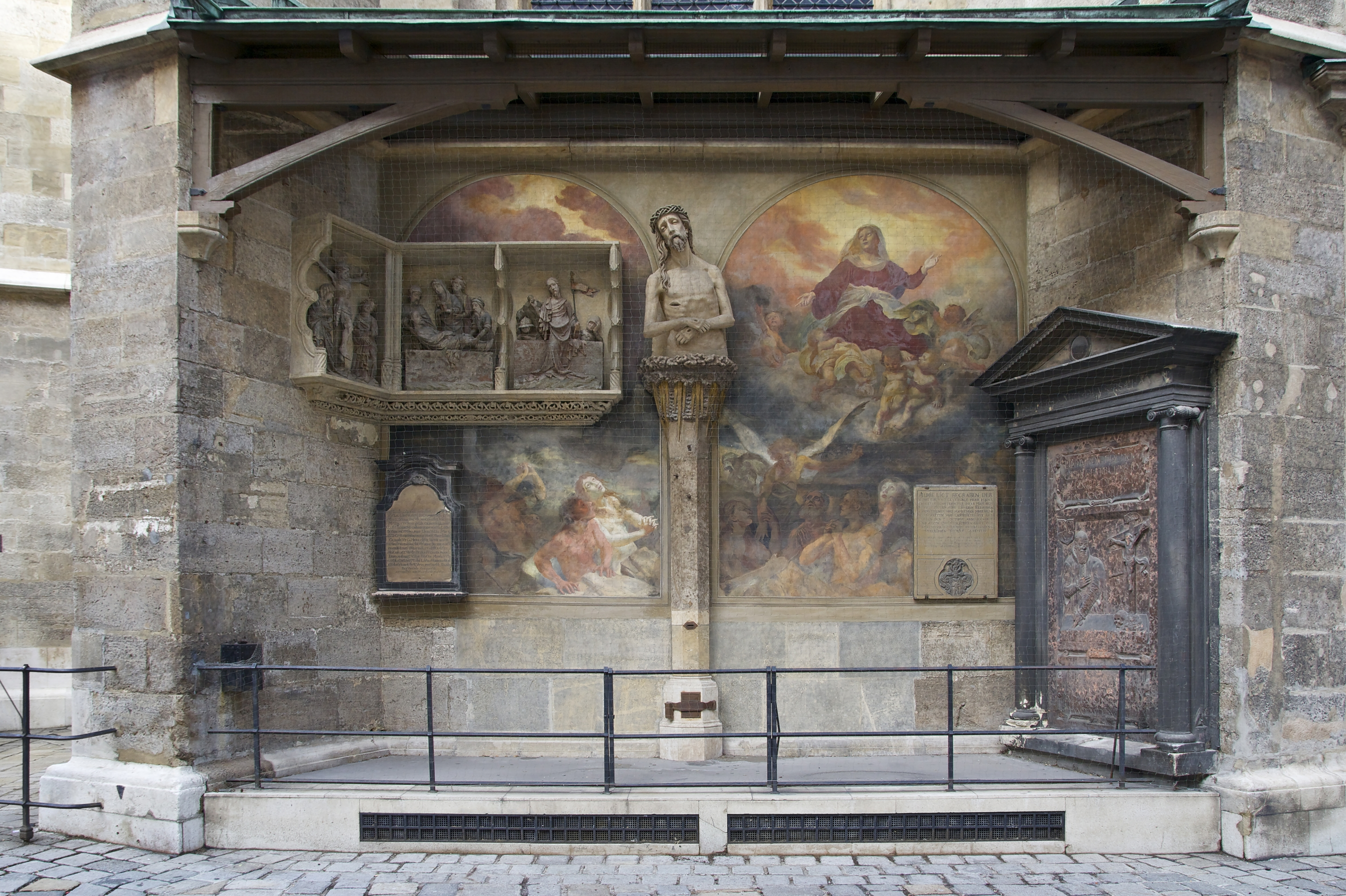 The "Toothache Christ", frescoes and epitaphs, exterior wal of the St. Stephen's cathedral, Vienna, Austria.